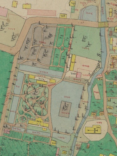 Iwonicz in the year 1851